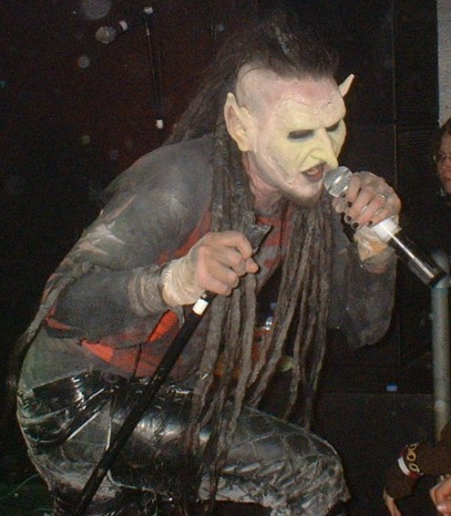 Mortiis at The Charlotte, on April 21, en:2005. Taken by User:Morwen.